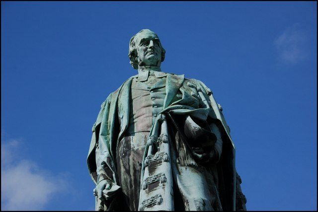 The Black Man, Belfast This statue, which stands just in front of Inst in College Square East, is of Dr Henry Cooke (1788-1868) a clergyman who became involved in politics. It is commonly known as “The Black Man” although, strictly speaking, this nickname belongs to the previous statue (of the Marquis of Belfast) on the site. See also 1937372 and 1687238.